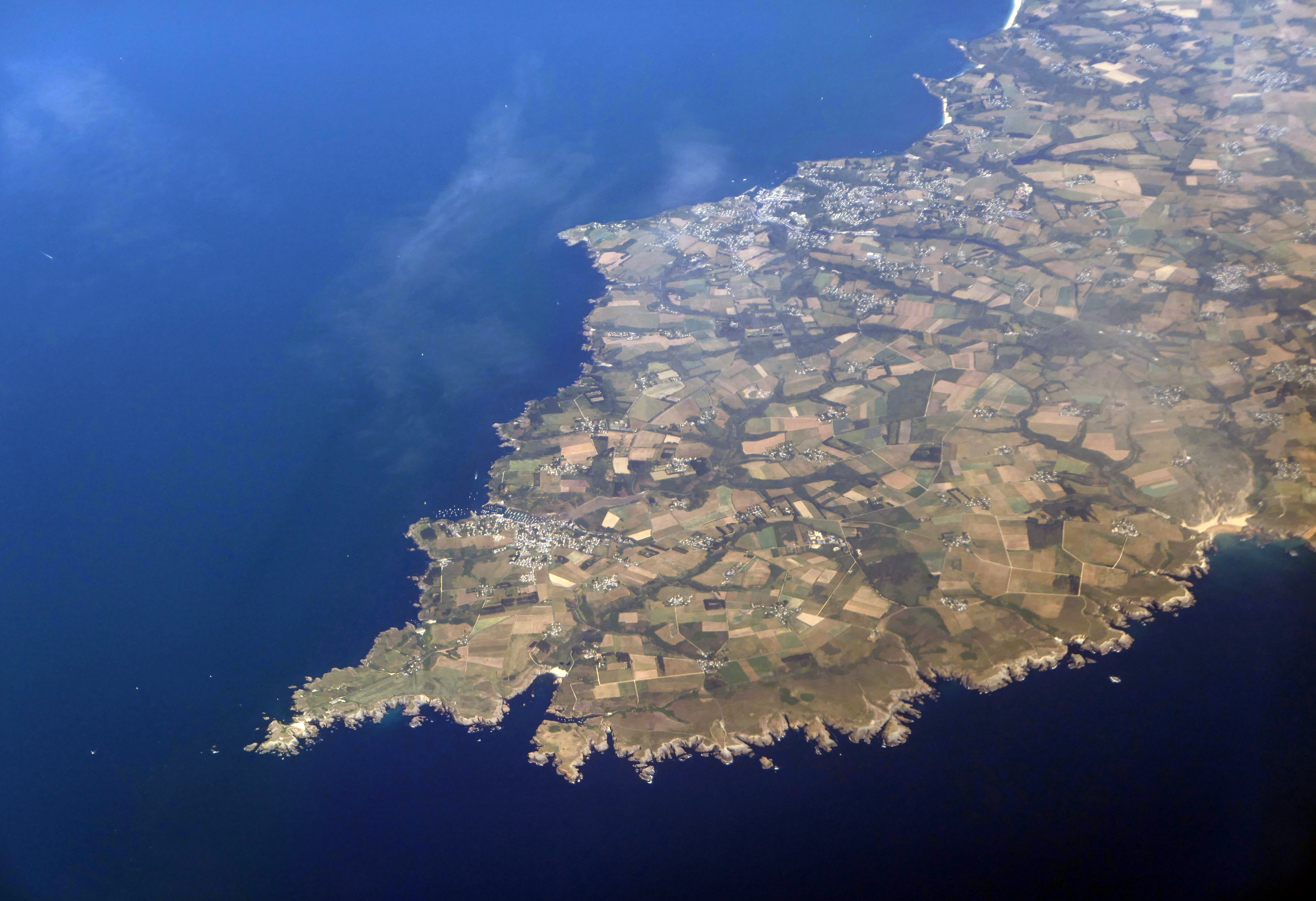 An aerial view of the northwestern part of Belle Île in Brittany.